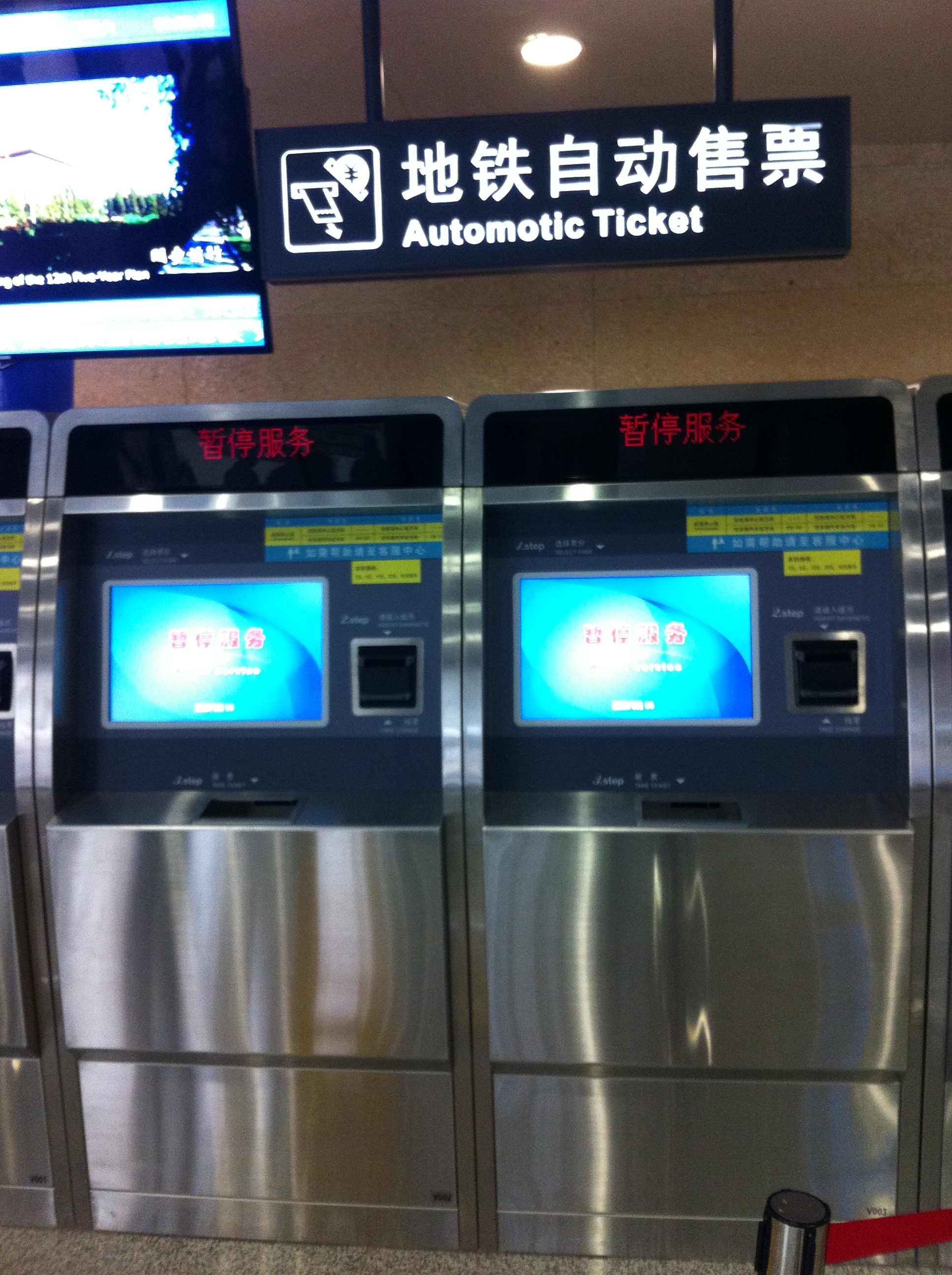 Ticket Vending Machine of Kunming Metro Line 6